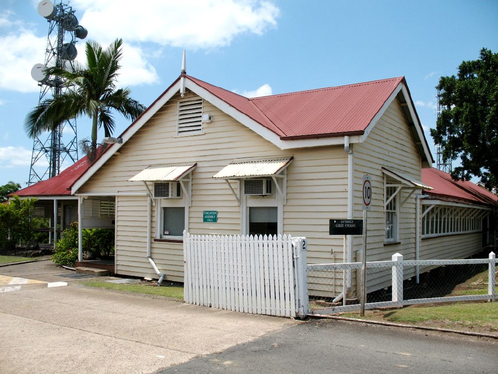 Maryborough Railway Station Complex, Traffic manager and engineer's office, from SW (2007)